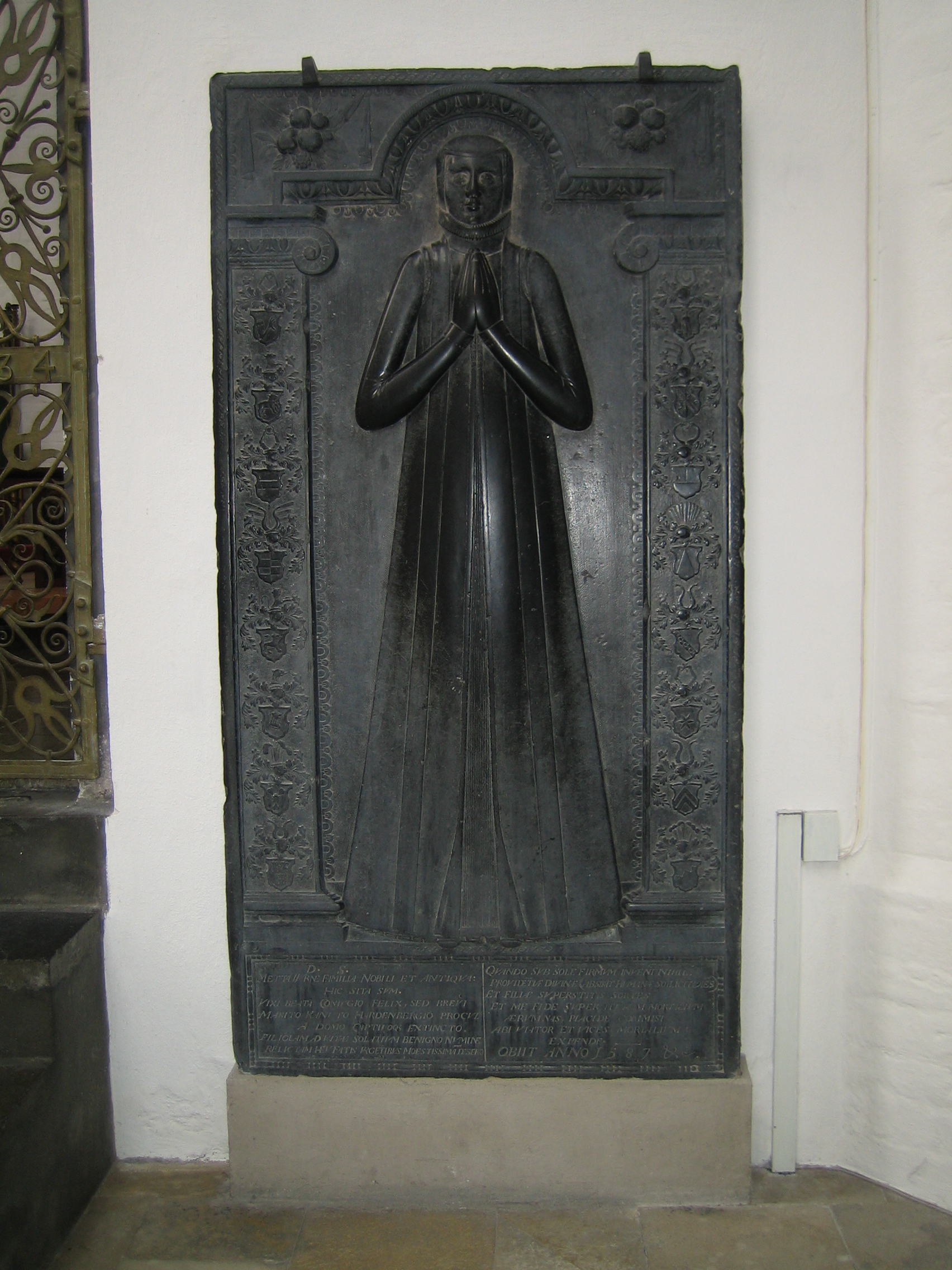 A memorial plaque (dated 1587) above a tomb of the noblewoman Metta Urne (died 1587) in the Aarhus Cathedral.